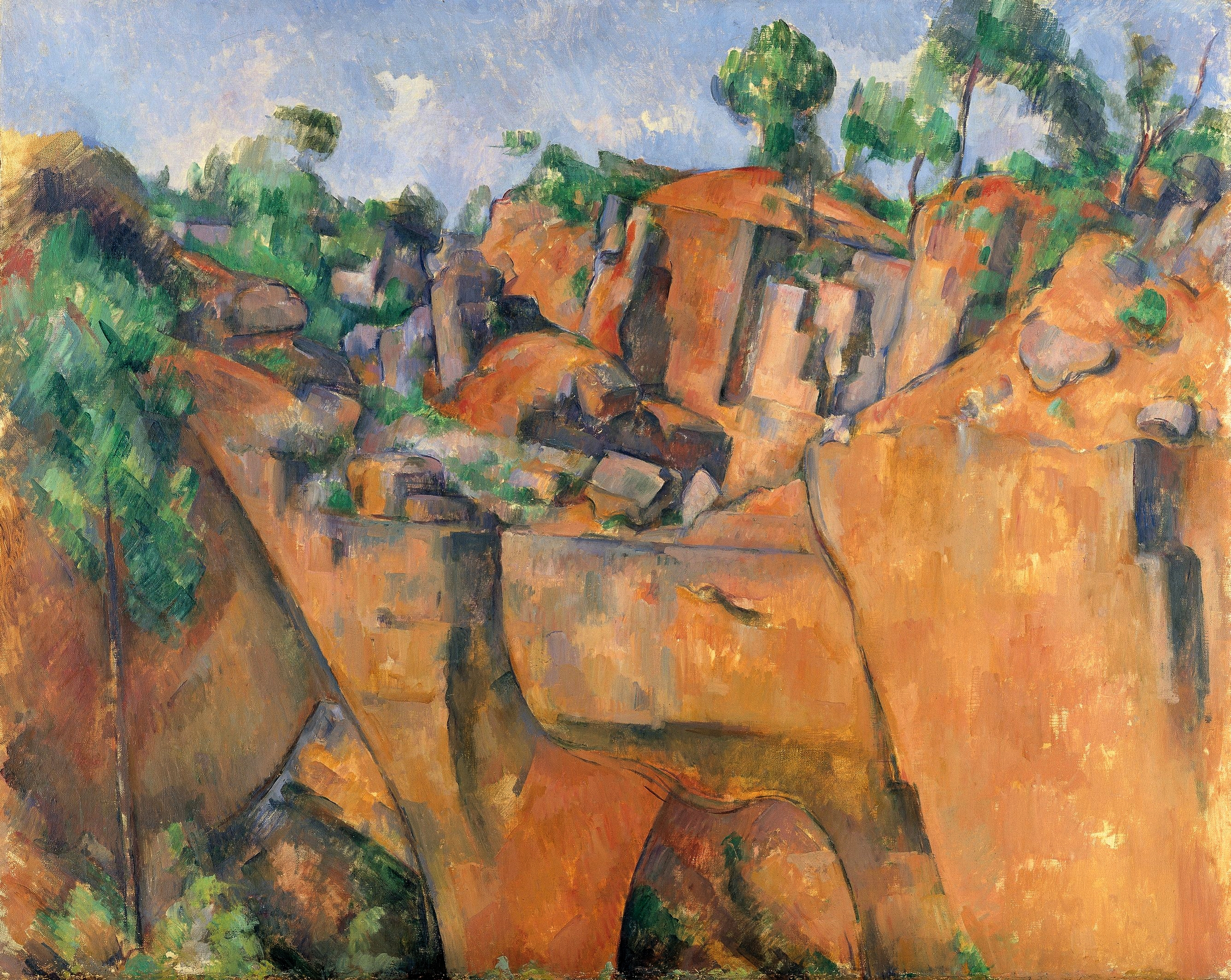 The Bibémus Quarry